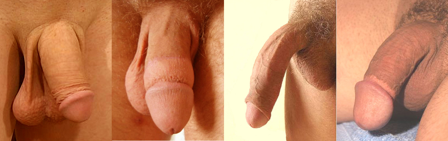 Styles of Circumcision, from left to right: high & loose, high & tight, low & loose, low & tight